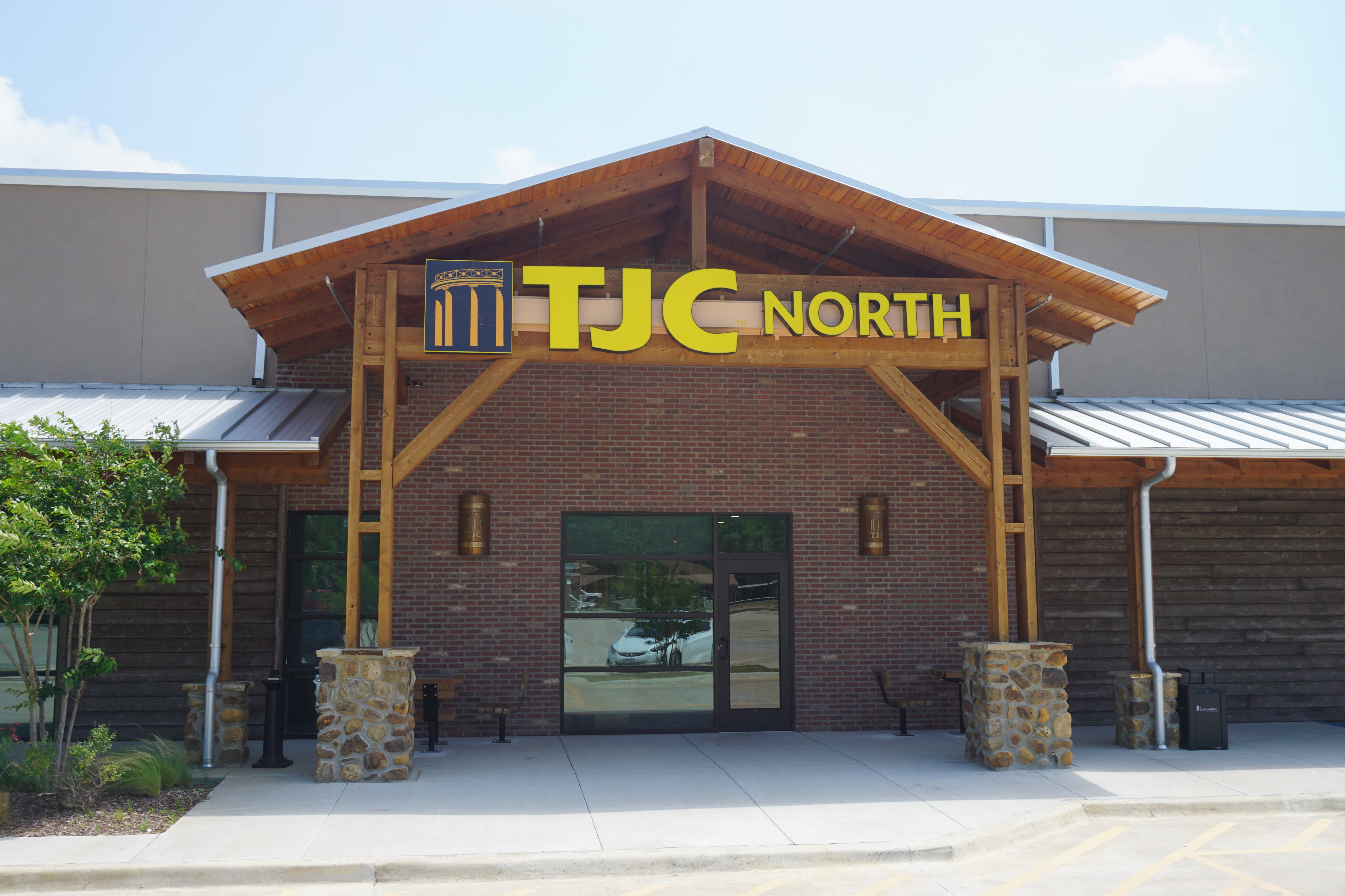 TJC North in Lindale, Texas (United States).